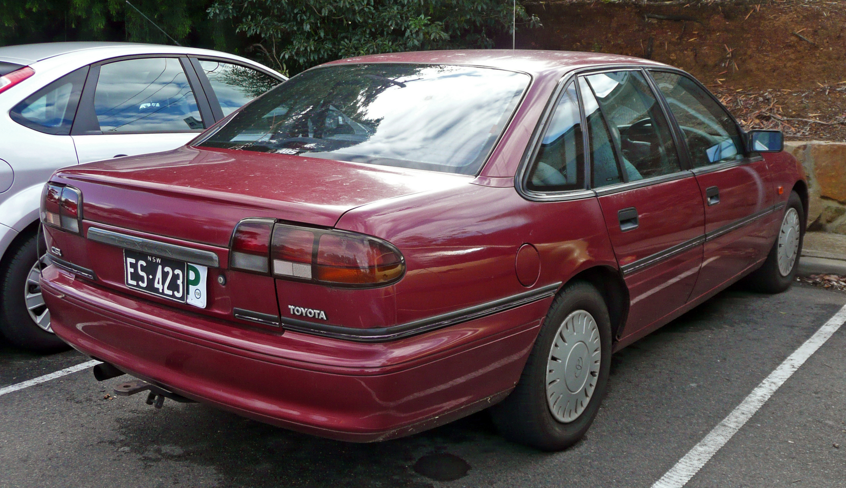 1993–1995 Toyota Lexcen (T3) CSi sedan. Photographed in Kirrawee, New South Wales, Australia.